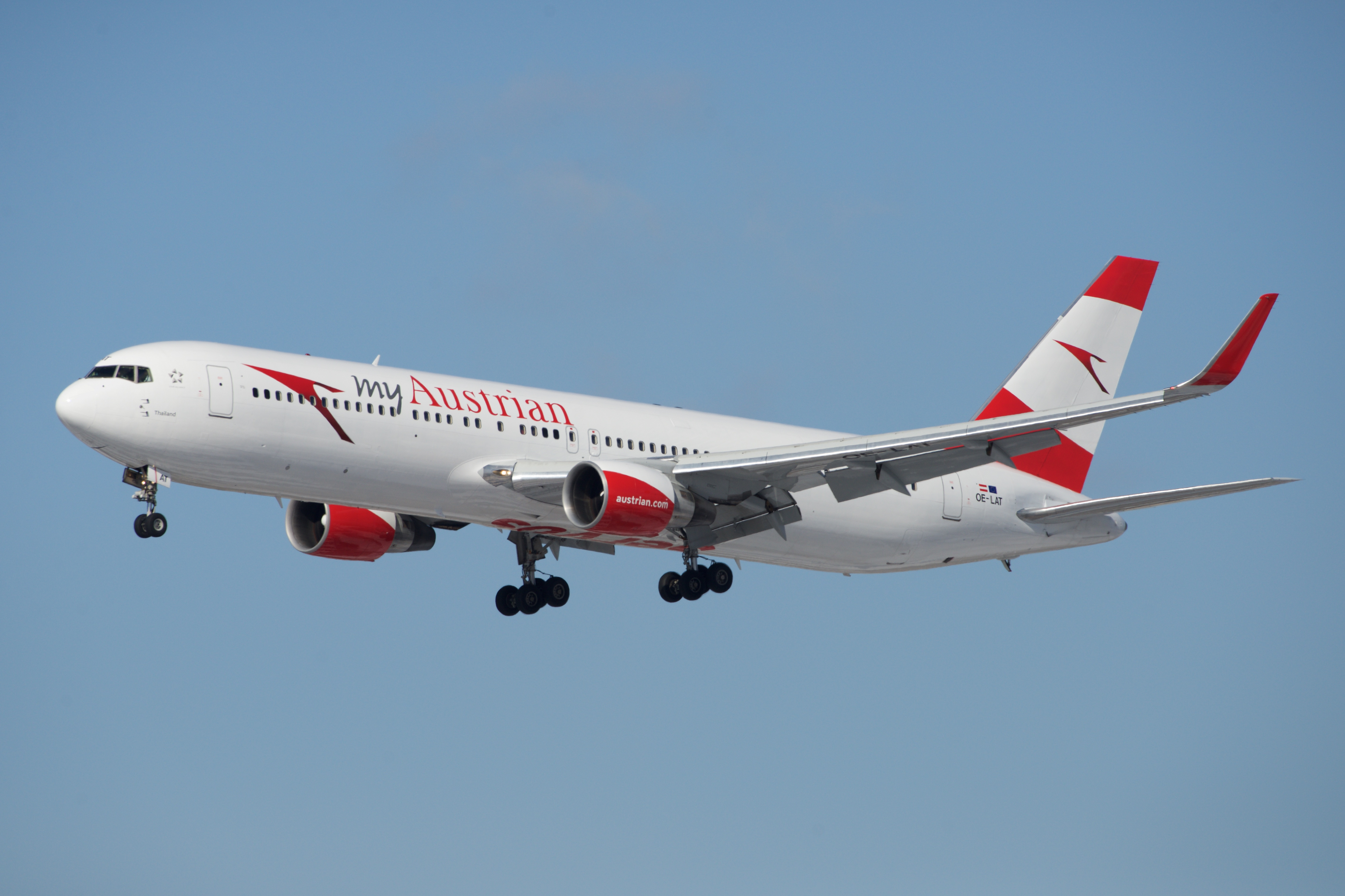 Already retired scheme. Approaching YYZ.